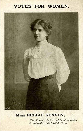 Postcard of Miss Nellie Kenney, Women's Social and Political Union Photochrom Co. Ltd. circa 1906. Contains Parliamentary information licensed under the Open Parliament Licence v3.0.